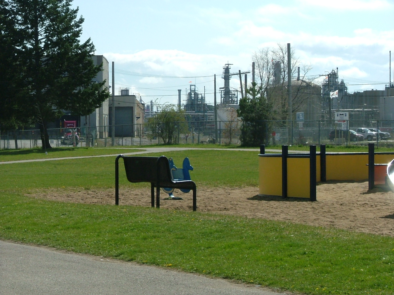 This shot shows Rainbow Park on Christina Street in Sarnia with Chemical Valley refineries in the background.